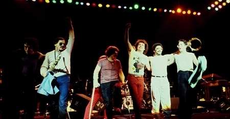 Toto at the Hammersmith Odeon. Note Bobby Kimball with his leg in a cast